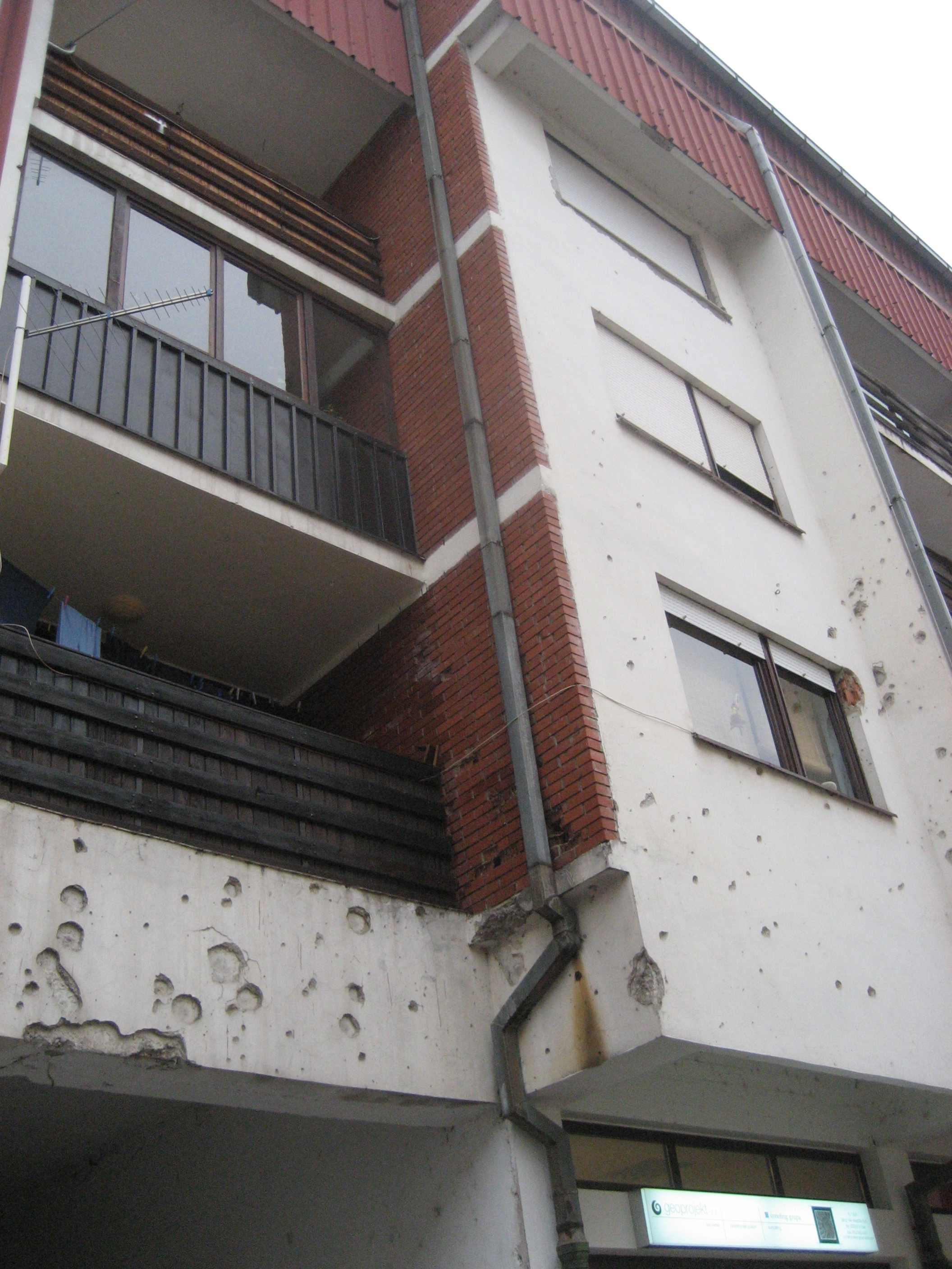 wounds of serbian shellings in Gospic